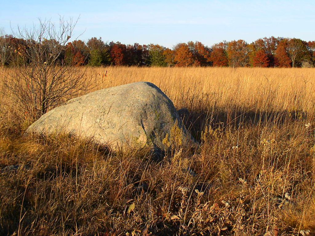 Glacial erratic at sundown in Tinta-Inya-Ota ("Prairie with many rocks") in Minneopa State Park, Minnesota, USA.